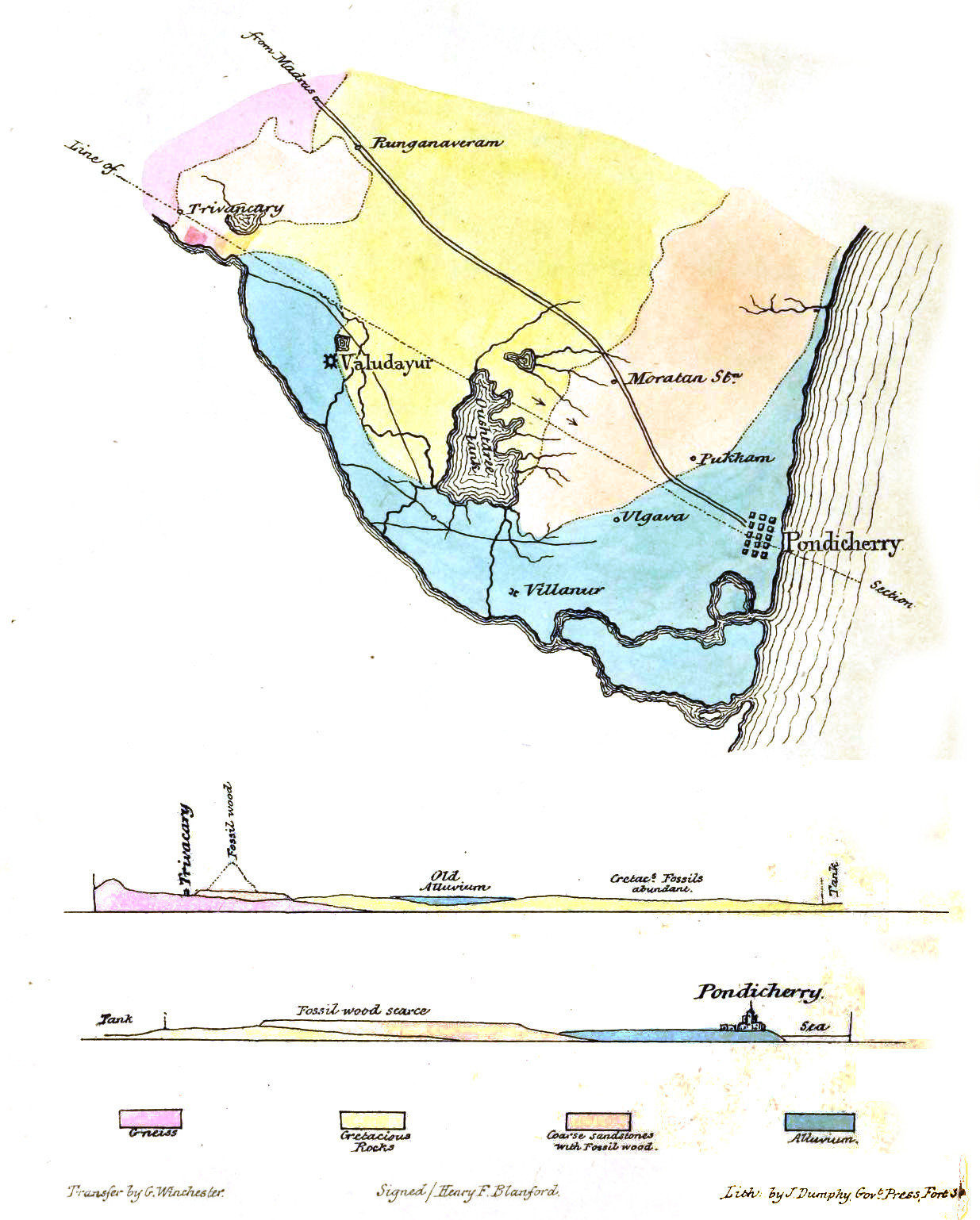 Map of the Tiruvakkarai region near Pondicherry, India